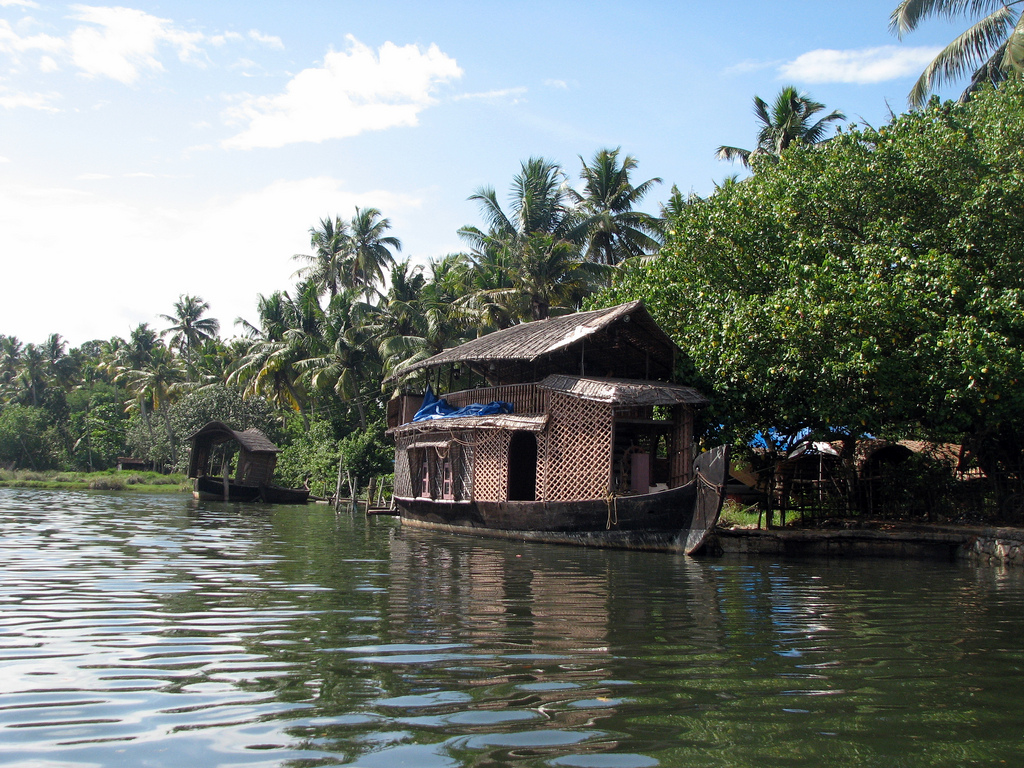 Municipality of Karunagappally, Kerala